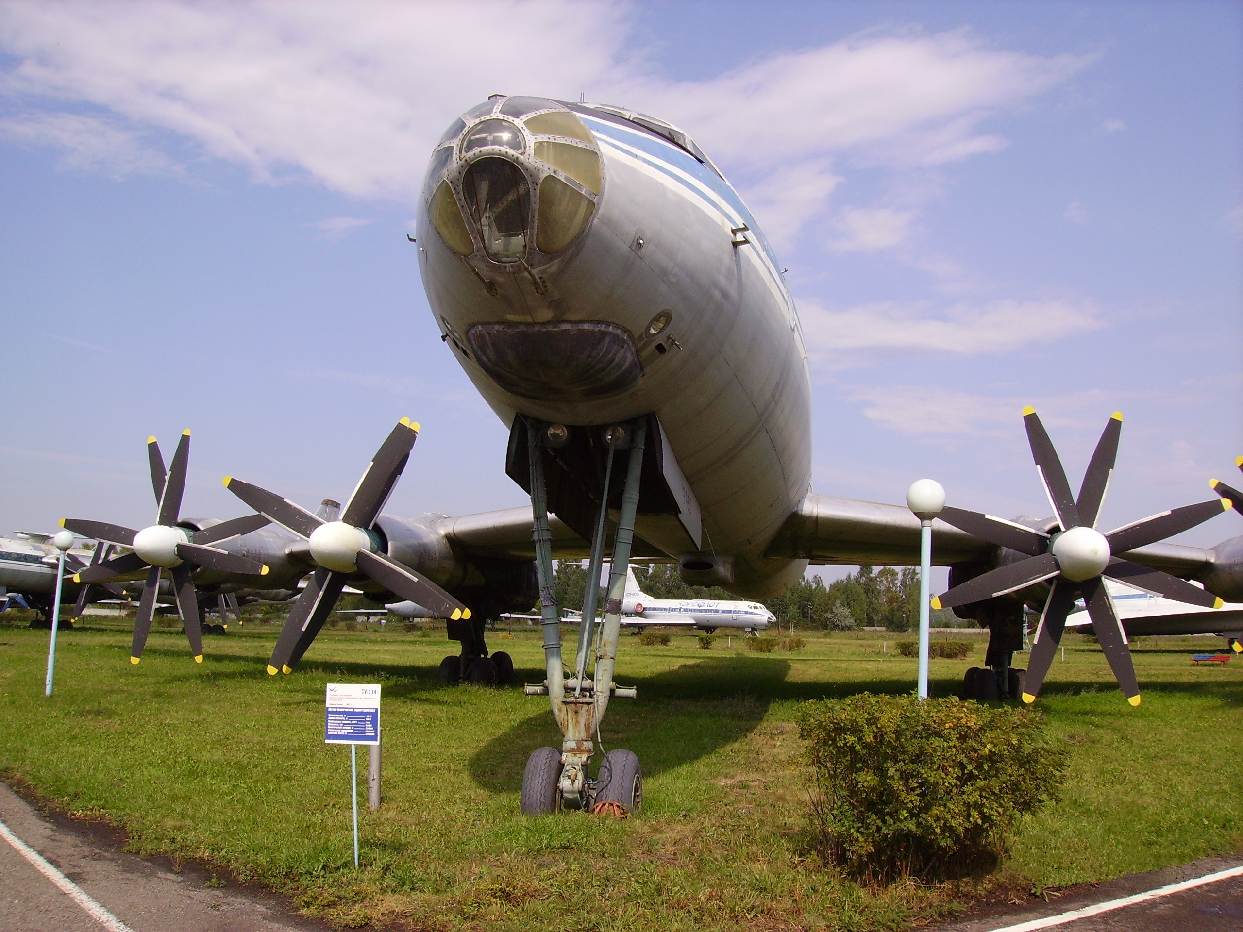 Tu-114 in Ulyanovsk Aircraft Museum